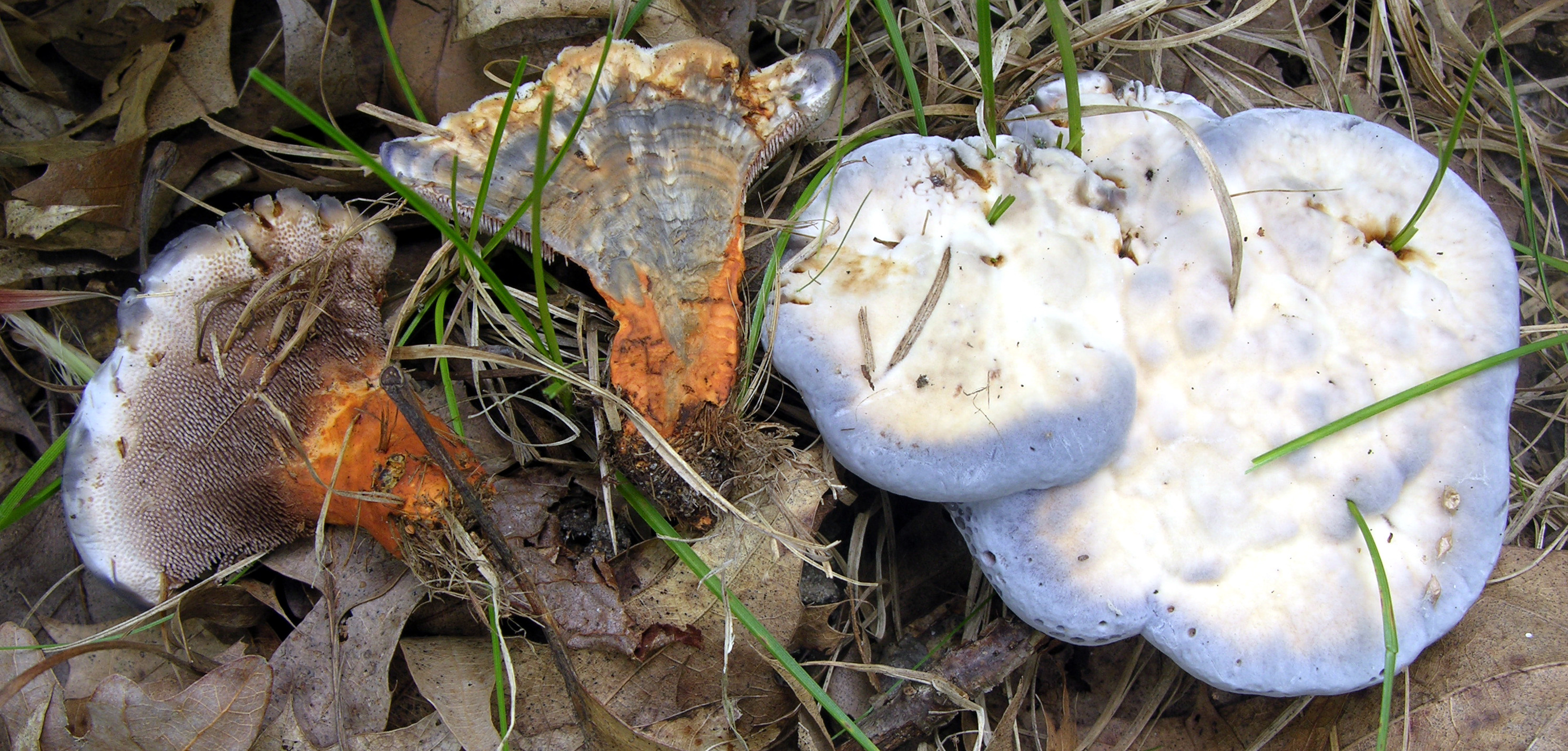 Fruit bodies of the fungus Hydnellum caeruleum Karsten. Specimen photographed in Walking Iron Park, Dane Co. WI, USA.